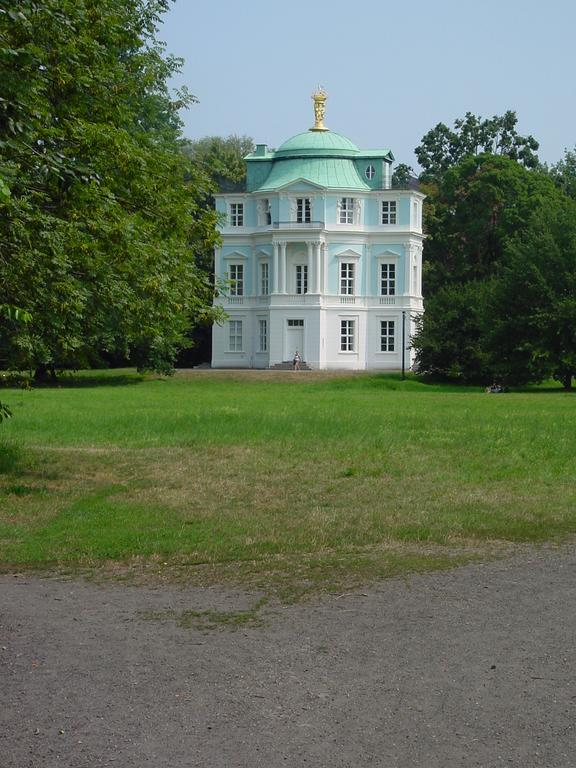 The teahouse Belvedere in the gardens of Schloss Charlottenburg